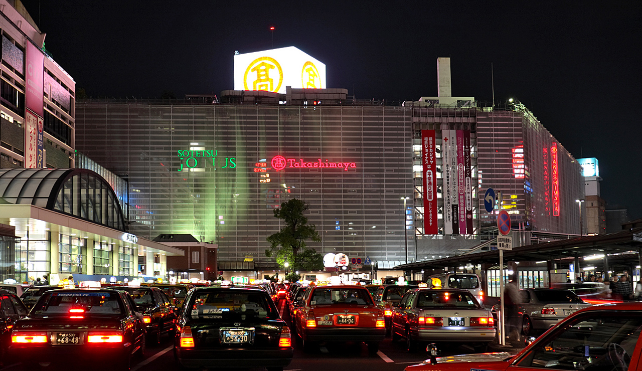 Yokohama Takashimaya and Sotetsu Joinus